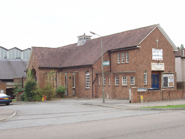 St Matthias' Church Hall, Colindale, London NW9. Built in 1934 as a mission church, it became the church hall when the present church (just visible behind it) was completed in 1972.